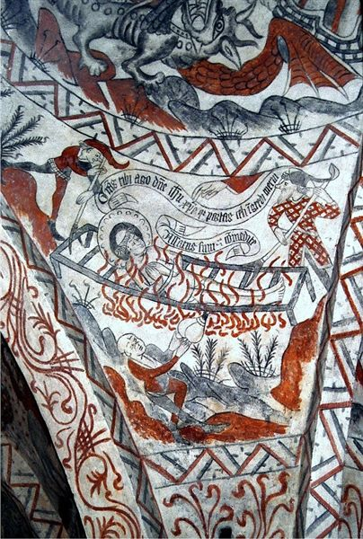 Frescoes by The Isefjord Master from apr. 1460-1480 in Tuse Kirke (church)